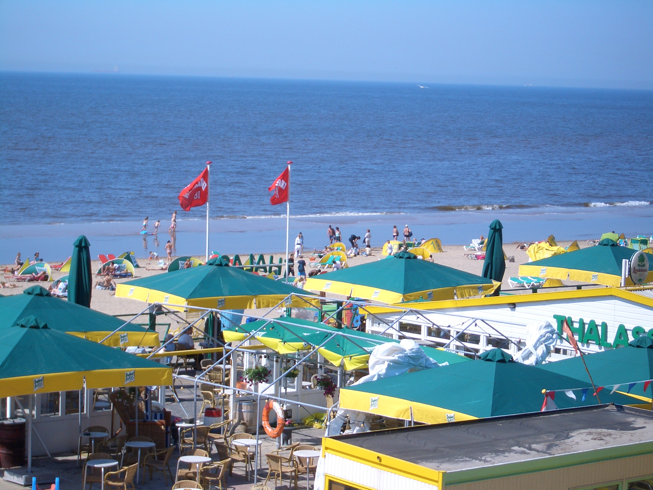 On the beach in Zandvoort an Zee